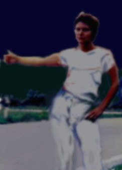 Vanishing hitchhiker